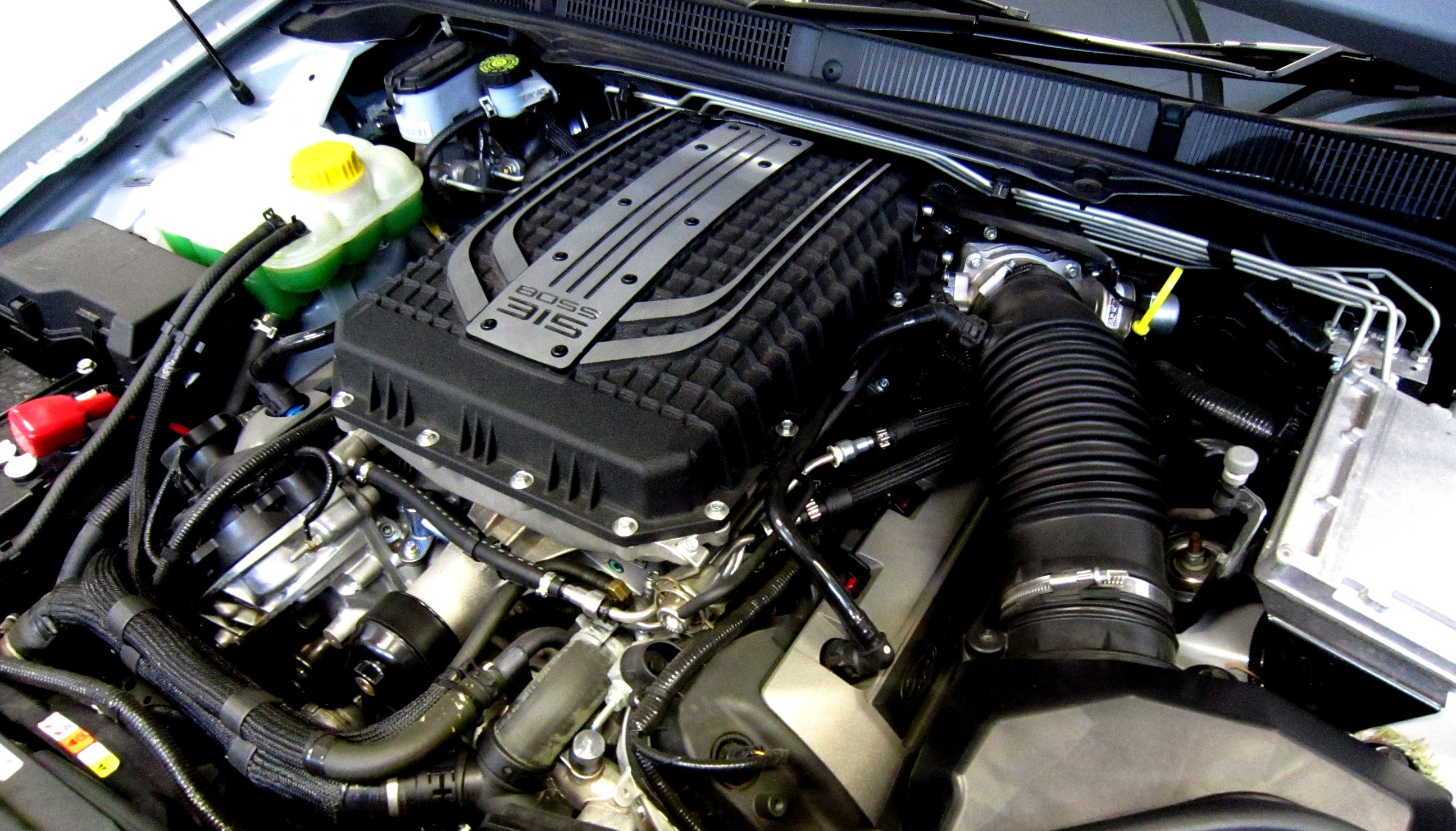 FPV looked to the U.S for motorvation ideas, which come in form of the Coyote 5.0lt. The same engine that curently powers the current Mustang has been re-tuned and supercharged by FPV, using a Herrod Motorsport spec'd super charger, which is a higher spec'd supercharger than that offered on the S/Charged Mustangs in the U.S. NRMA Drivers Seat